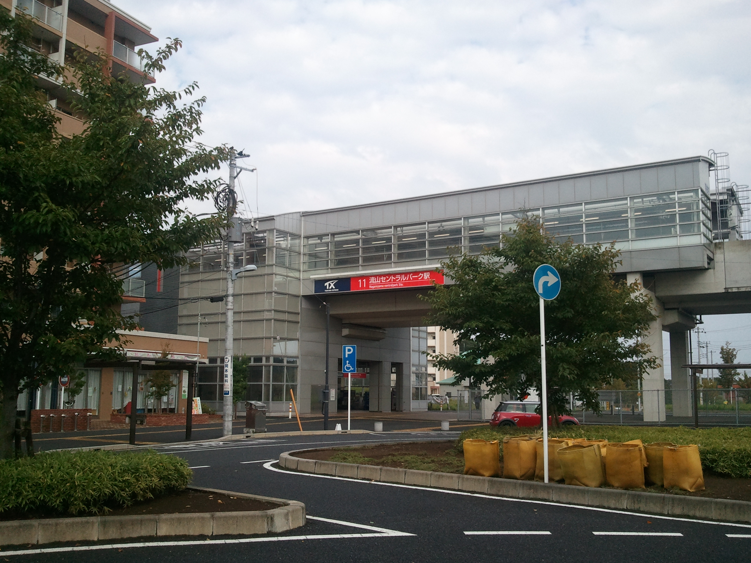 West side of Nagareyama-centralpark Station on the Tsukuba Express